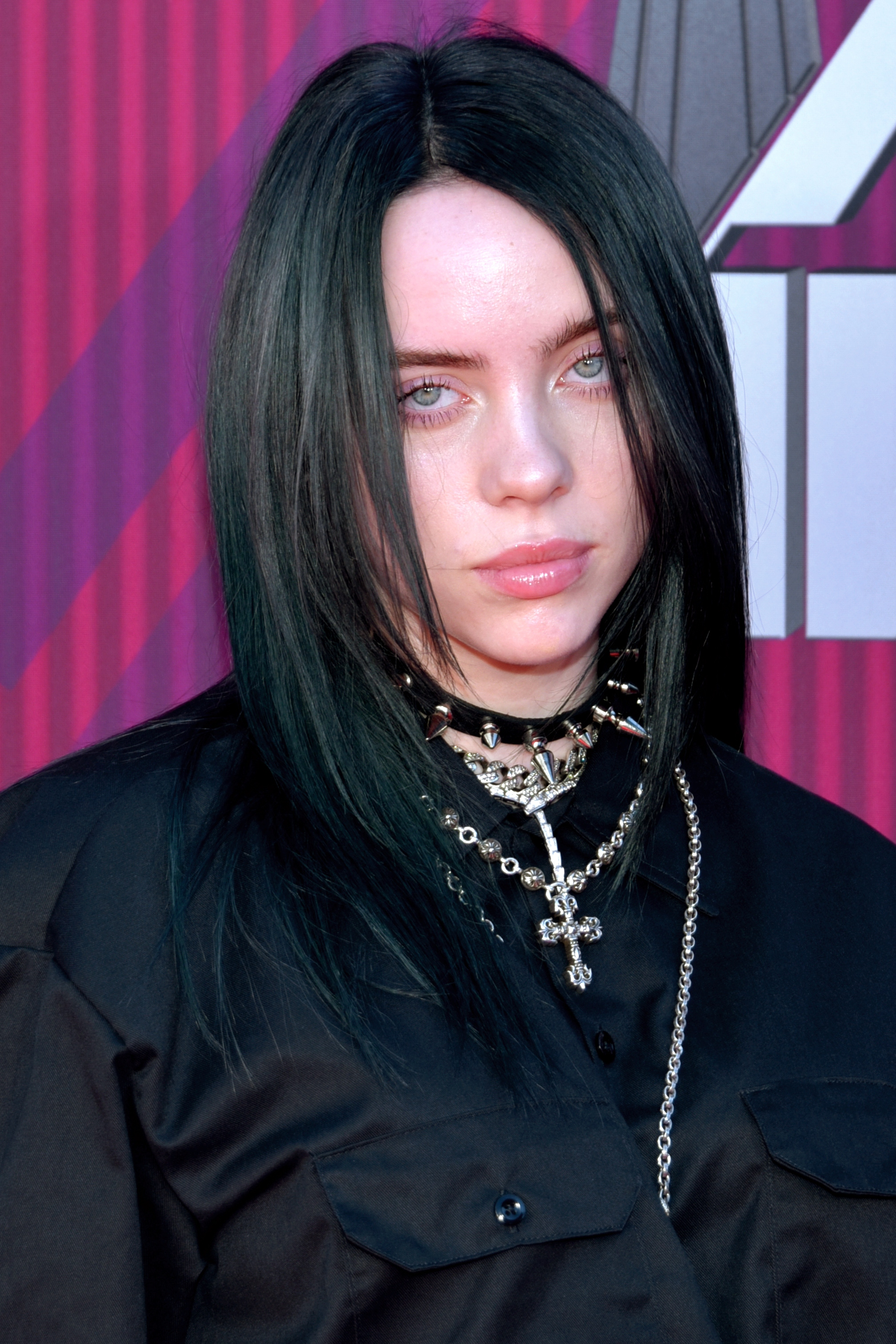 Billie Eilish at the 2019 iHeartRadio Music Awards in Los Angeles California on March 14, 2019 - Photo by Glenn Francis of